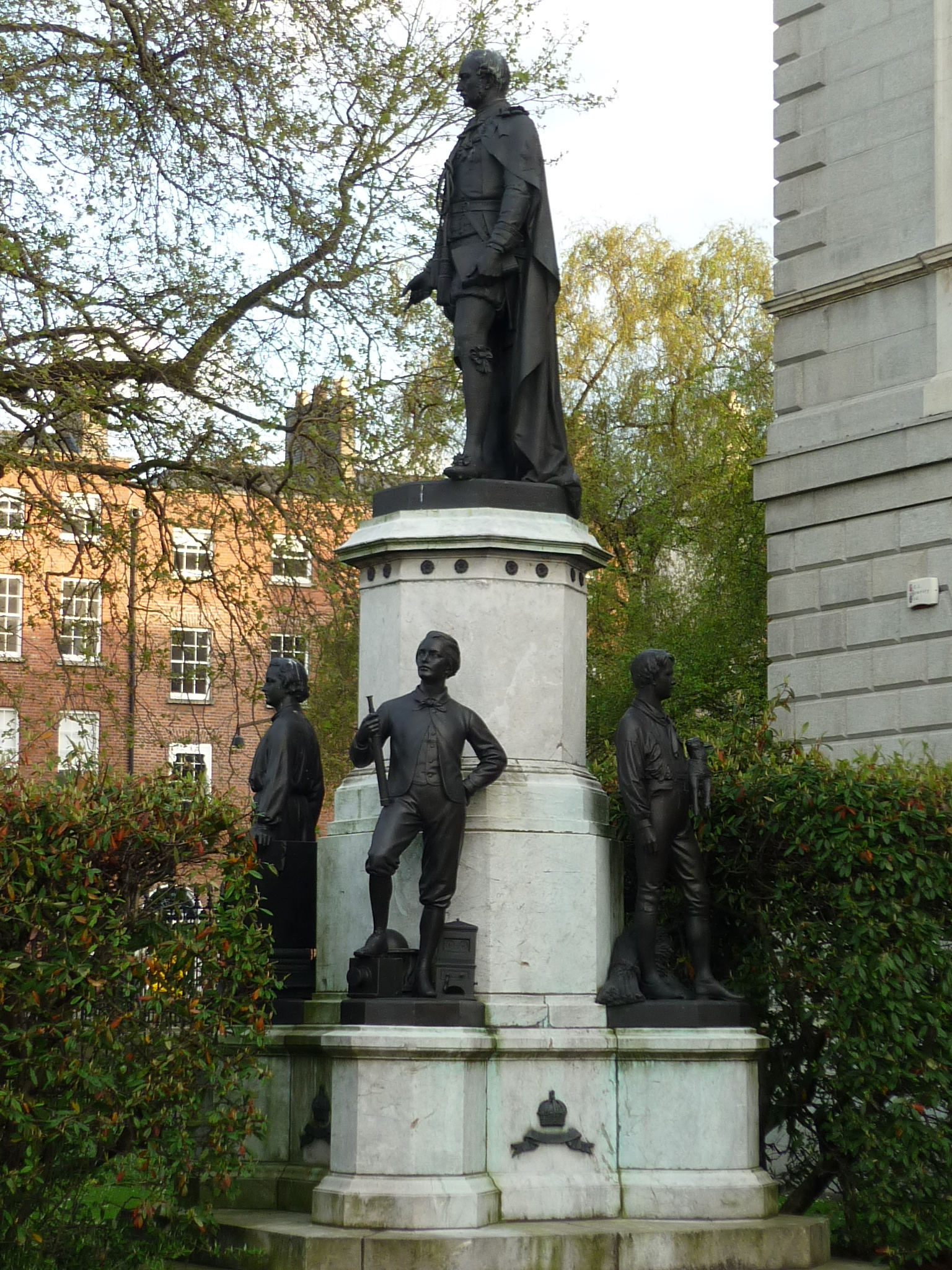 The Prince Consort statue outside Ireland's parliament building, Leinster House.